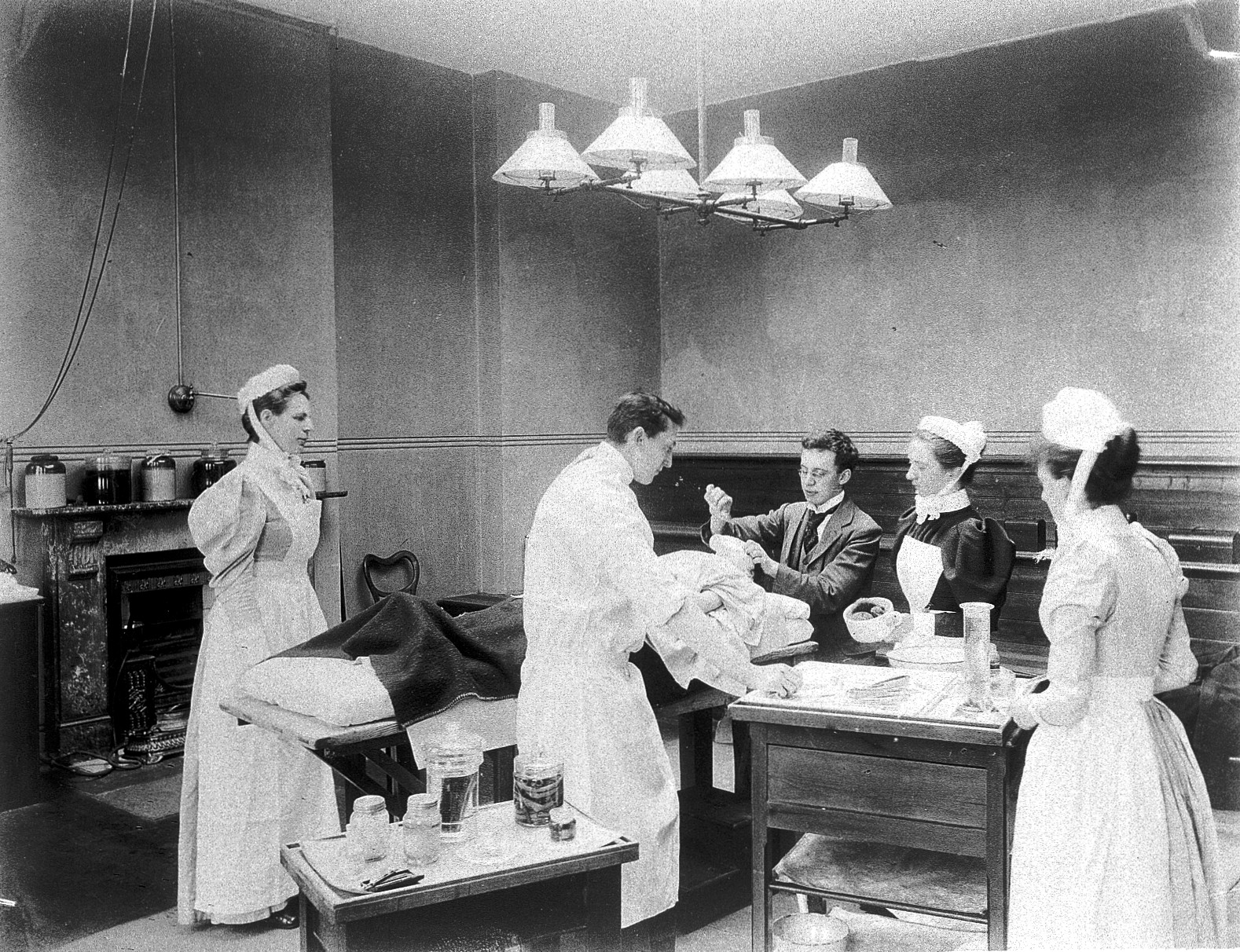 'The Operating Theatre'. From left to right: Nurse Henry Young, T. Hampton, E.J. Toye, the matron and Sister Cosgrove. Archives & Manuscripts Keywords: Operating Theatres; Hospitals